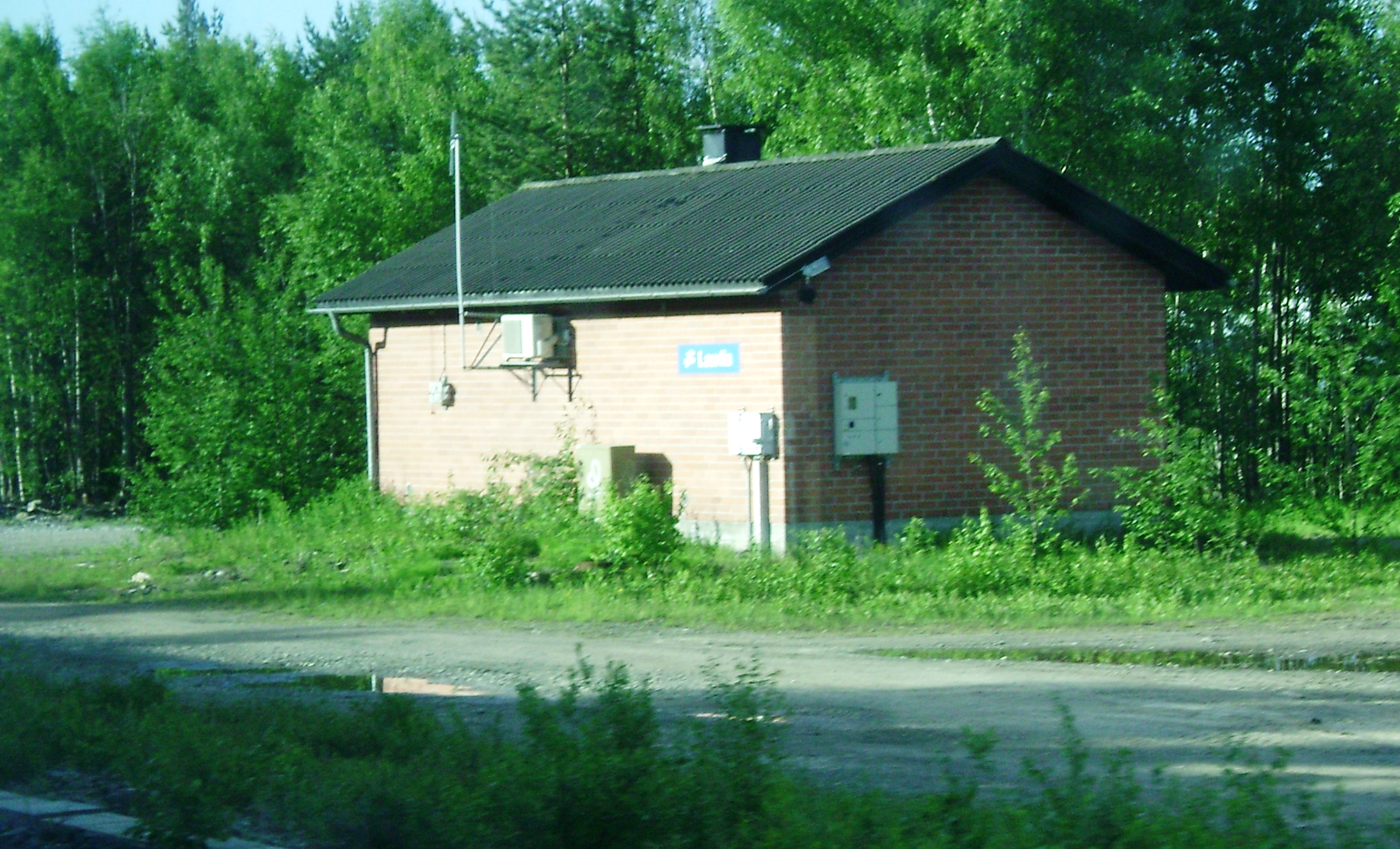 Laurila railway station in Keminmaa, Finland.